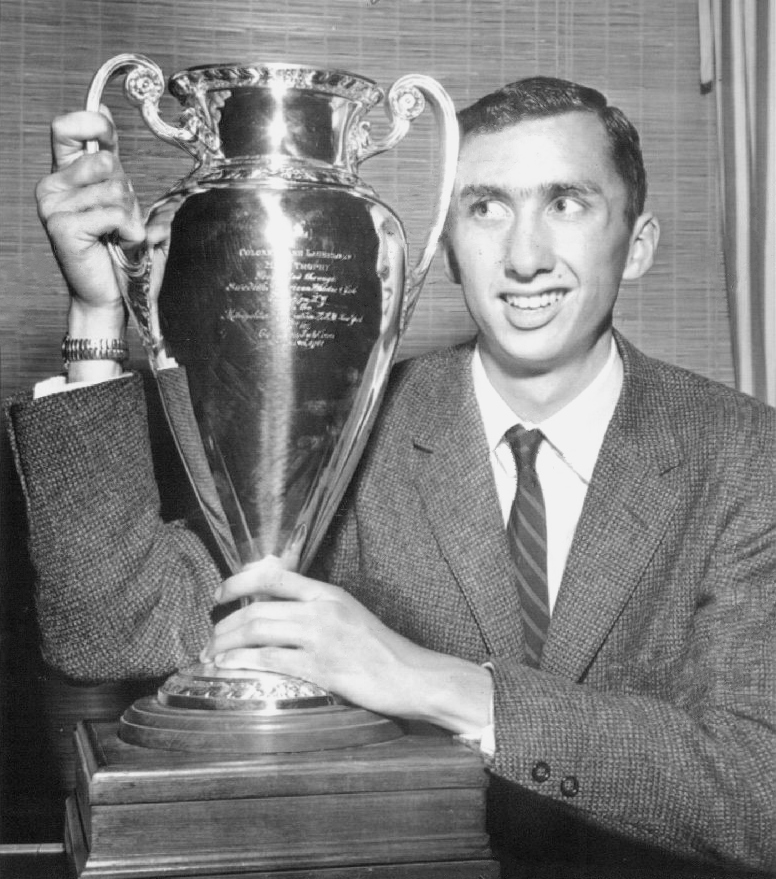 1957 Golden Bear Runner Don Bowden Won Col Hans Lagerloef Trophy Press Photo